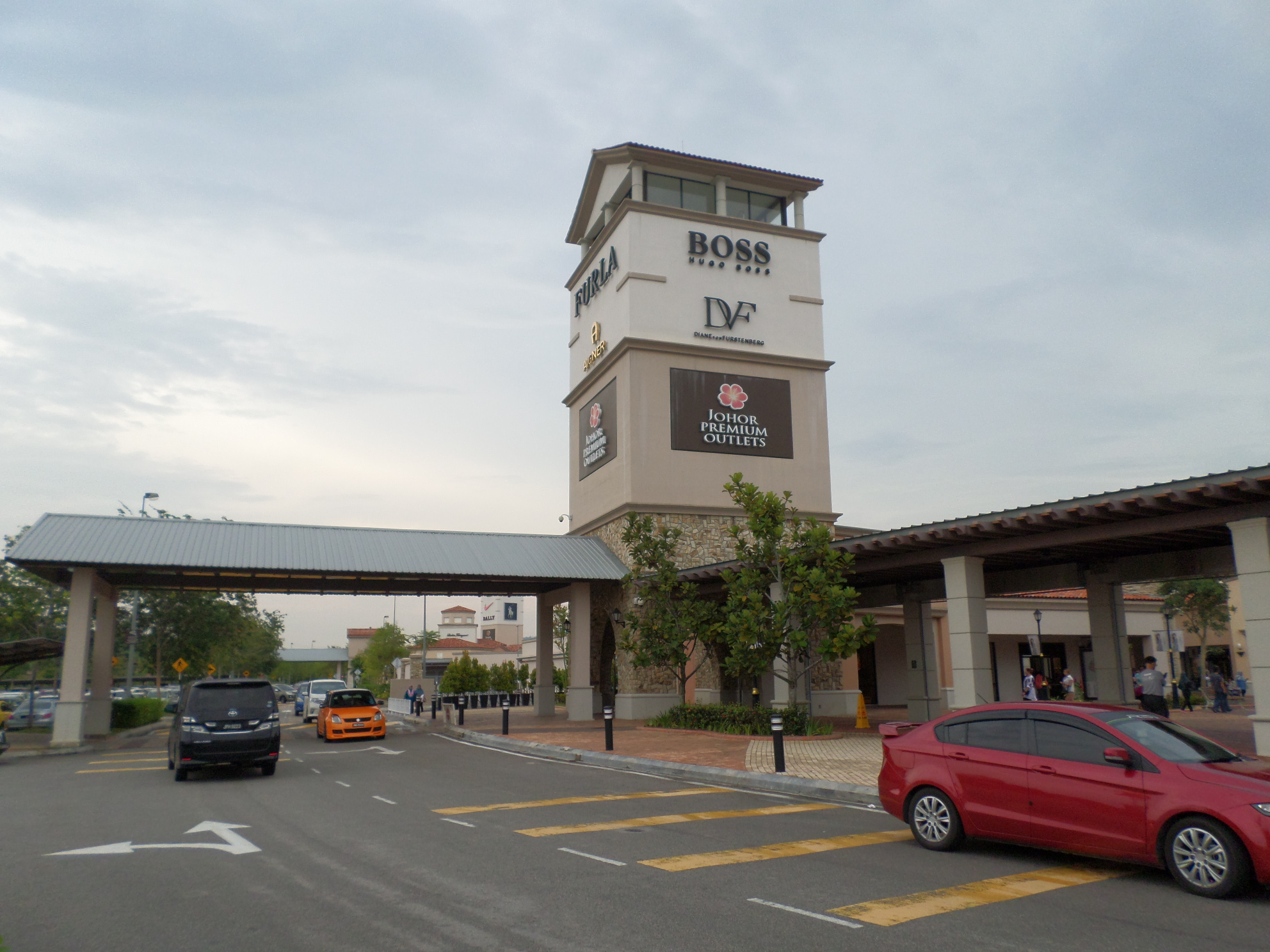 Johor Premium Outlets, Indahpura, Kulai, Johor, Malaysia